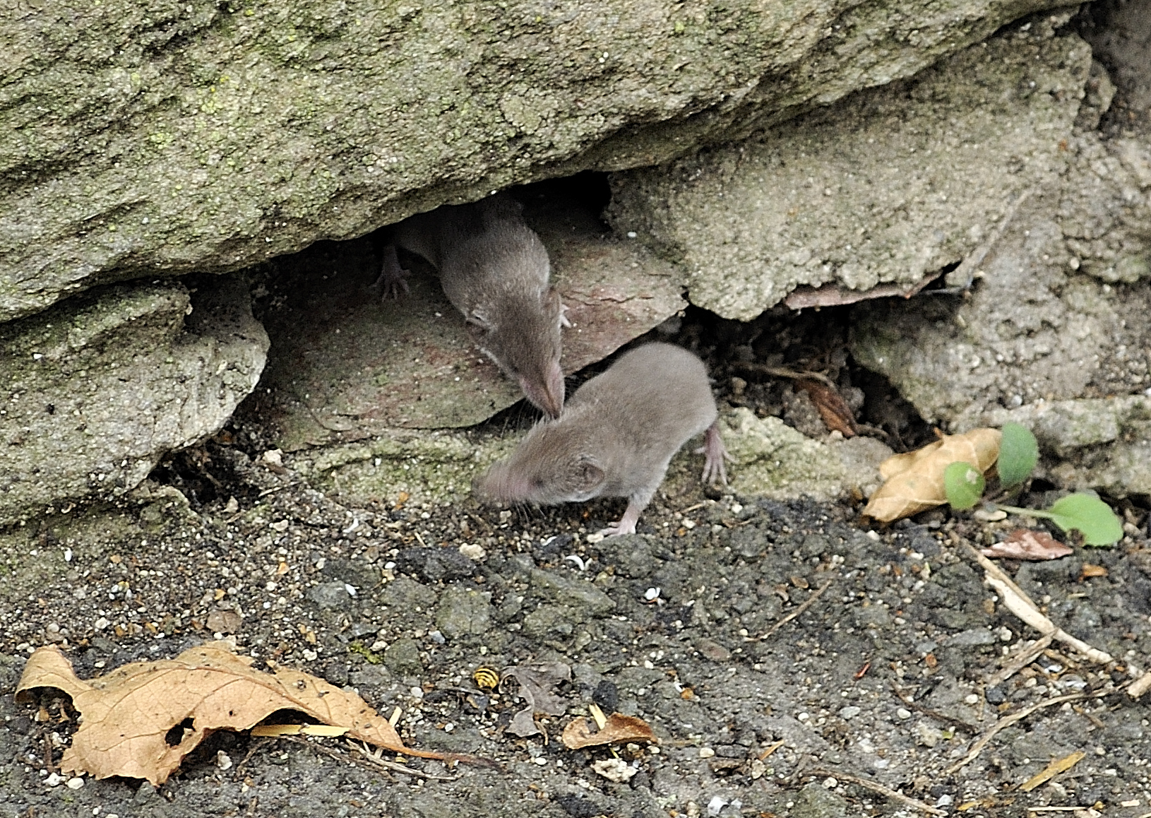 Picture taken for Wikipedia:Wiki Loves Monuments Mittelhessen.